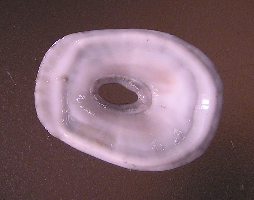 Amblychilepas javanicensis J. B. Lamarck, 1822, a keyhole limpet from the family Fissurellidae; South Australia